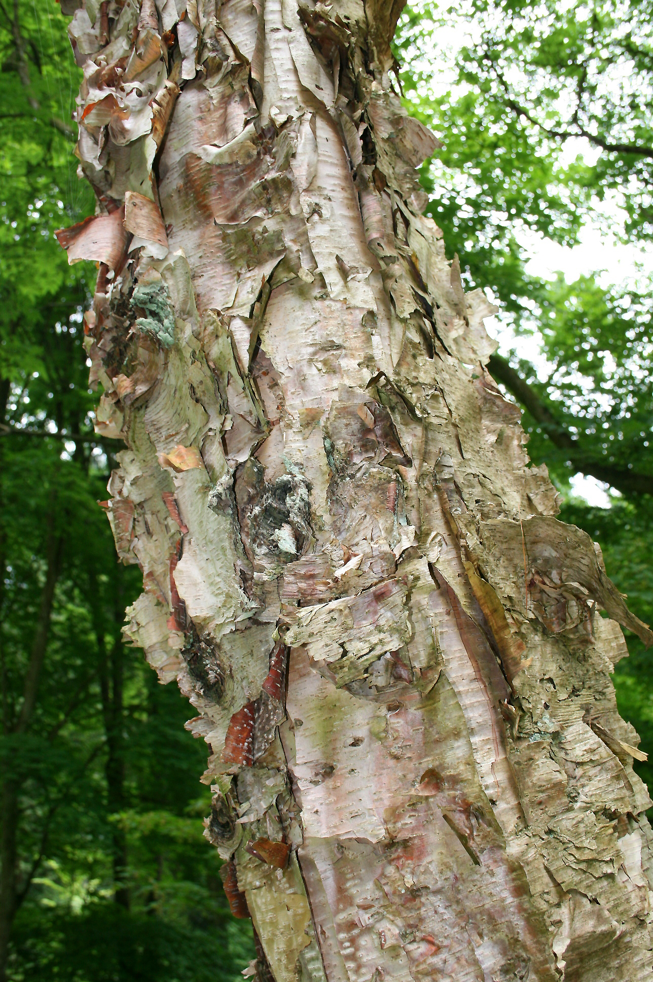 Dahurian birch (Betula davurica) Planting date : 1967 Precise location : (S37) Arboretum Robert Lenoir - Rendeux (Belgium). Walon: Bèyôle di Dahrian (Betula davurica) Date do plantis' : 1967 Place rècta : (S37) Arboretum Robert Lenoir - Rindeu (Bèljike)